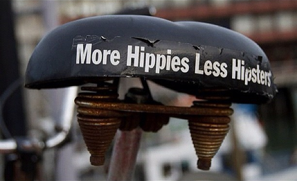 More hippies, less hipsters